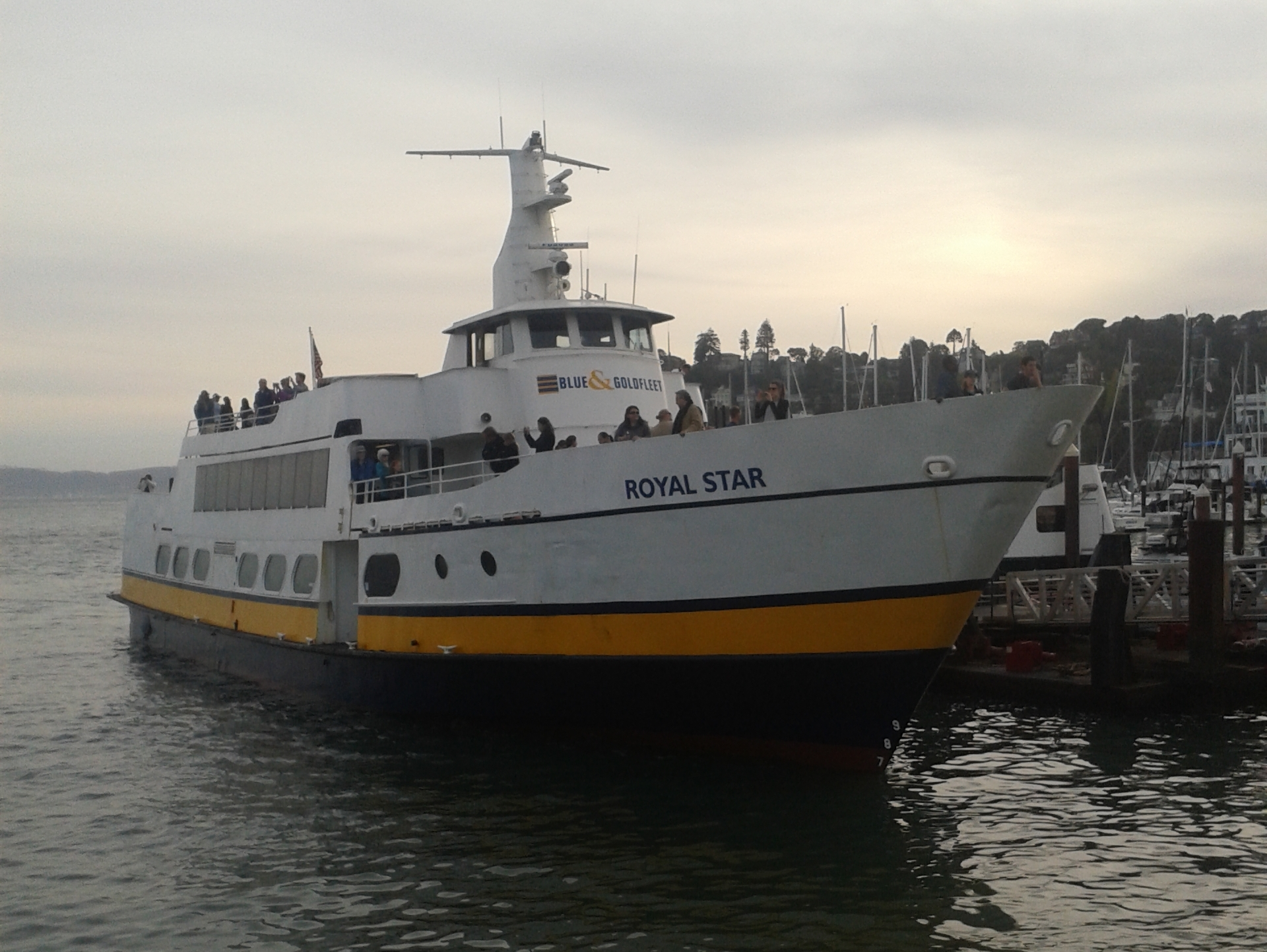 Royal Star ferry at the jetty in Tiburon